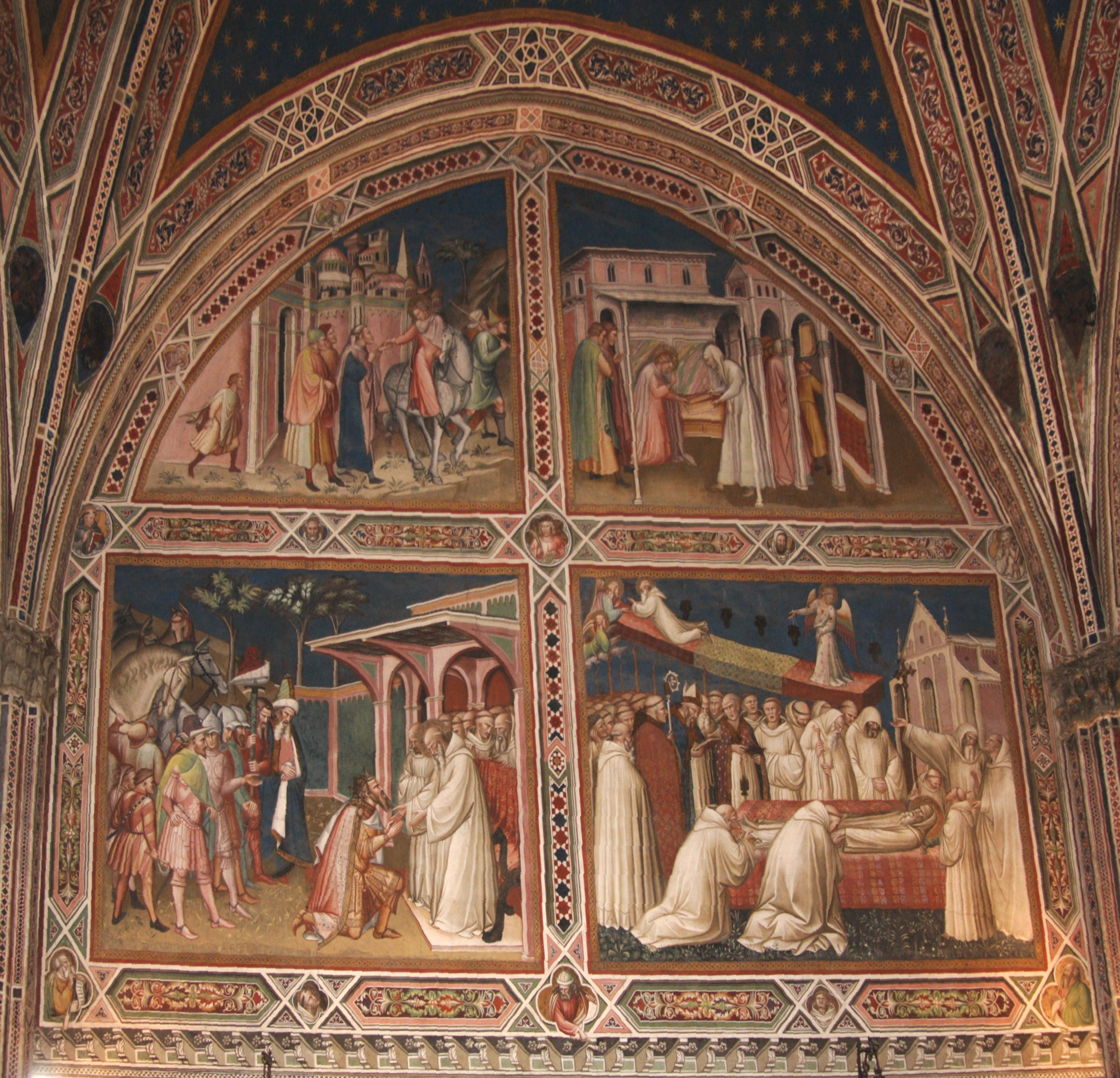 San Miniato al Monte (Florence) - Spinello Aretino fresco 2